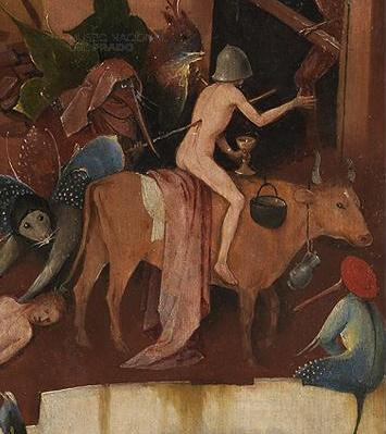 The Hay Wagon, inner right wing, detail.